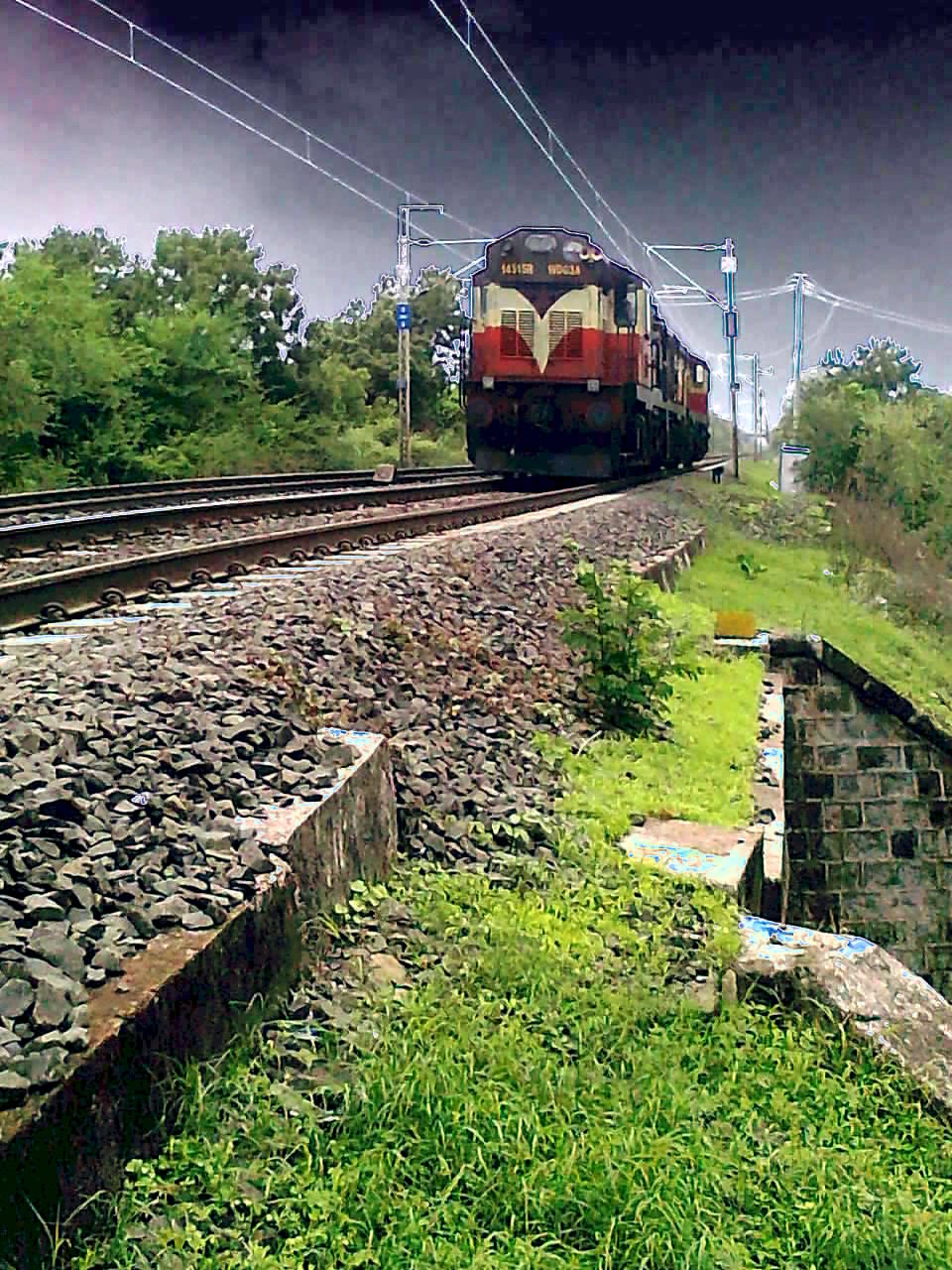 Running train engine on a railway track in front of Dr Ulhas Patil Medical College and Hospital at Jalgaon, India